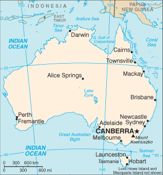 Australia map from CIA World Factbook, converted from original GIF format